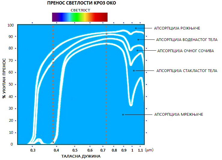 ПРЕНОС СВЕТЛОСТИ У ОКУ